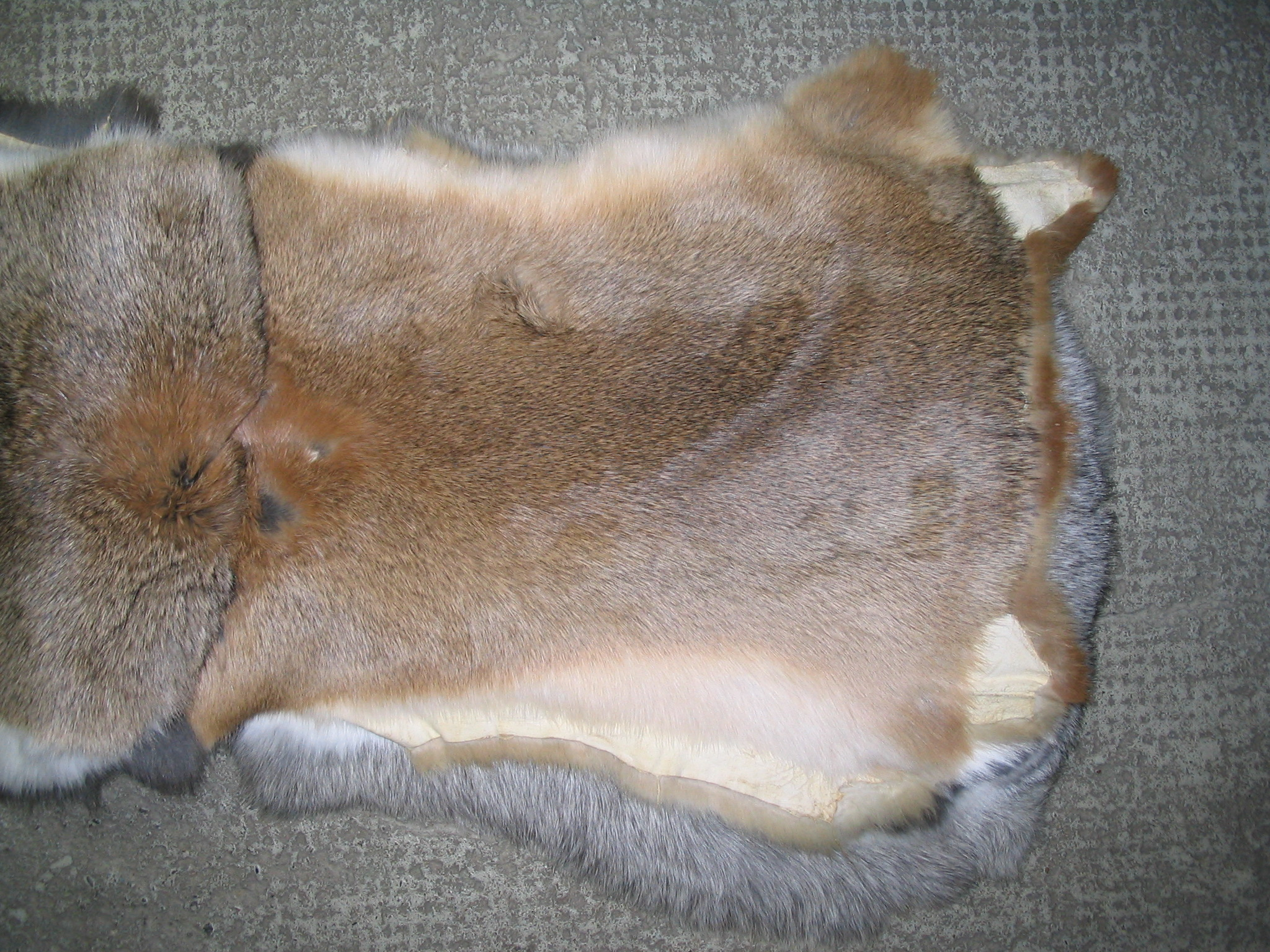 Domestic rabbit fur skins, haregrey reddish